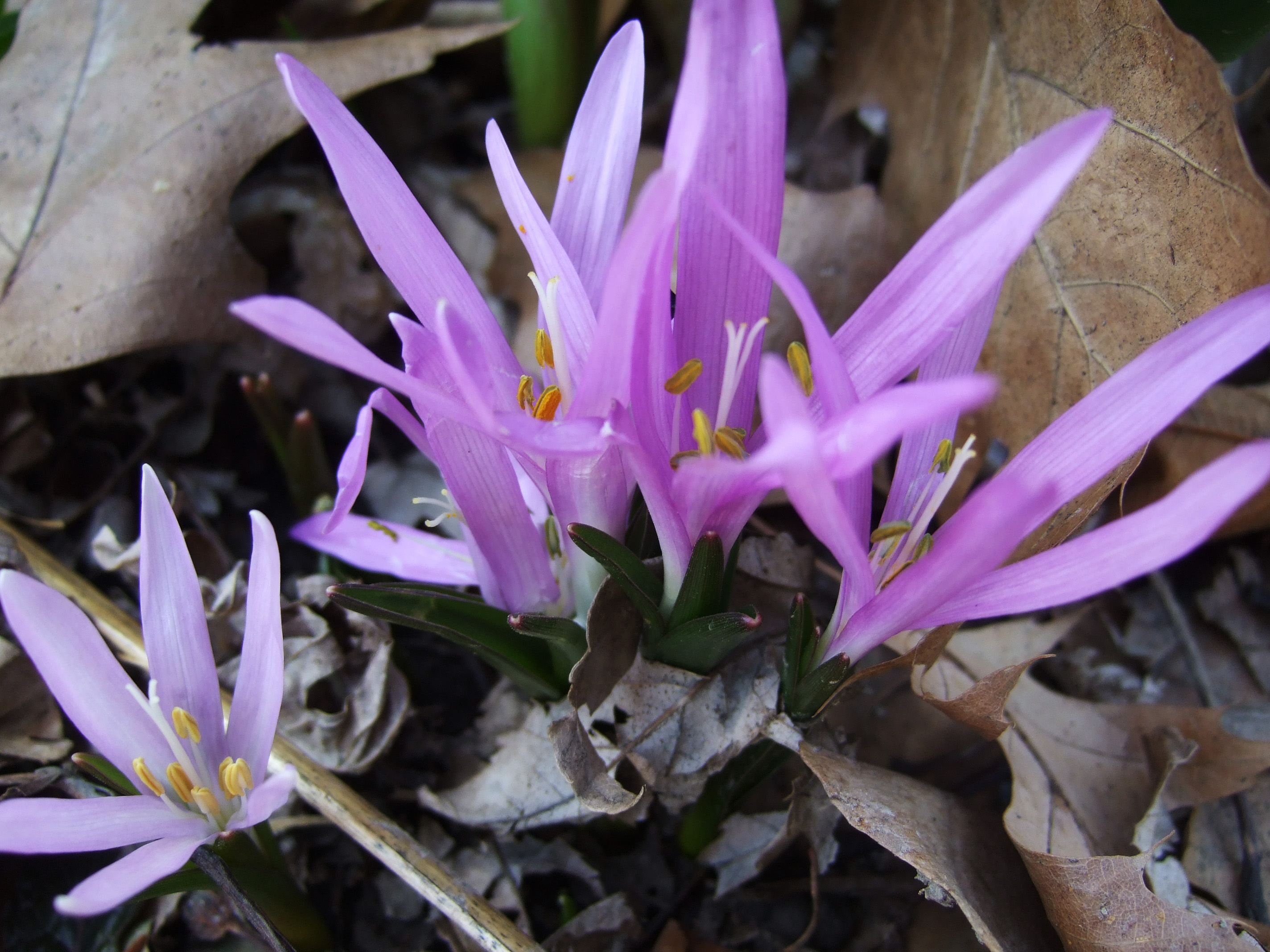 Bulbocodium vernum in the garden of botanist Robert R. Kowal, Madison, Wisconsin, USA.